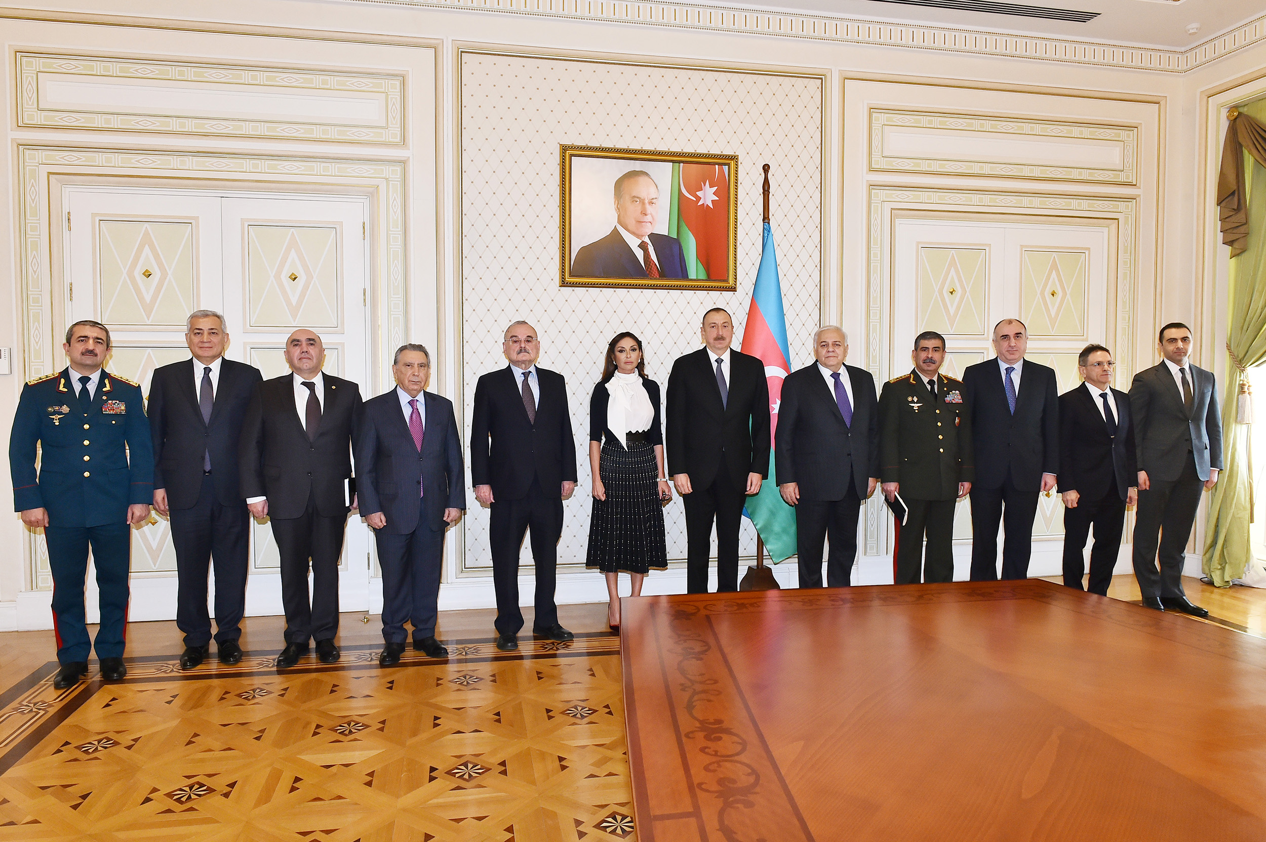 Meeting of Security Council under chairmanship of Ilham Aliyev was held